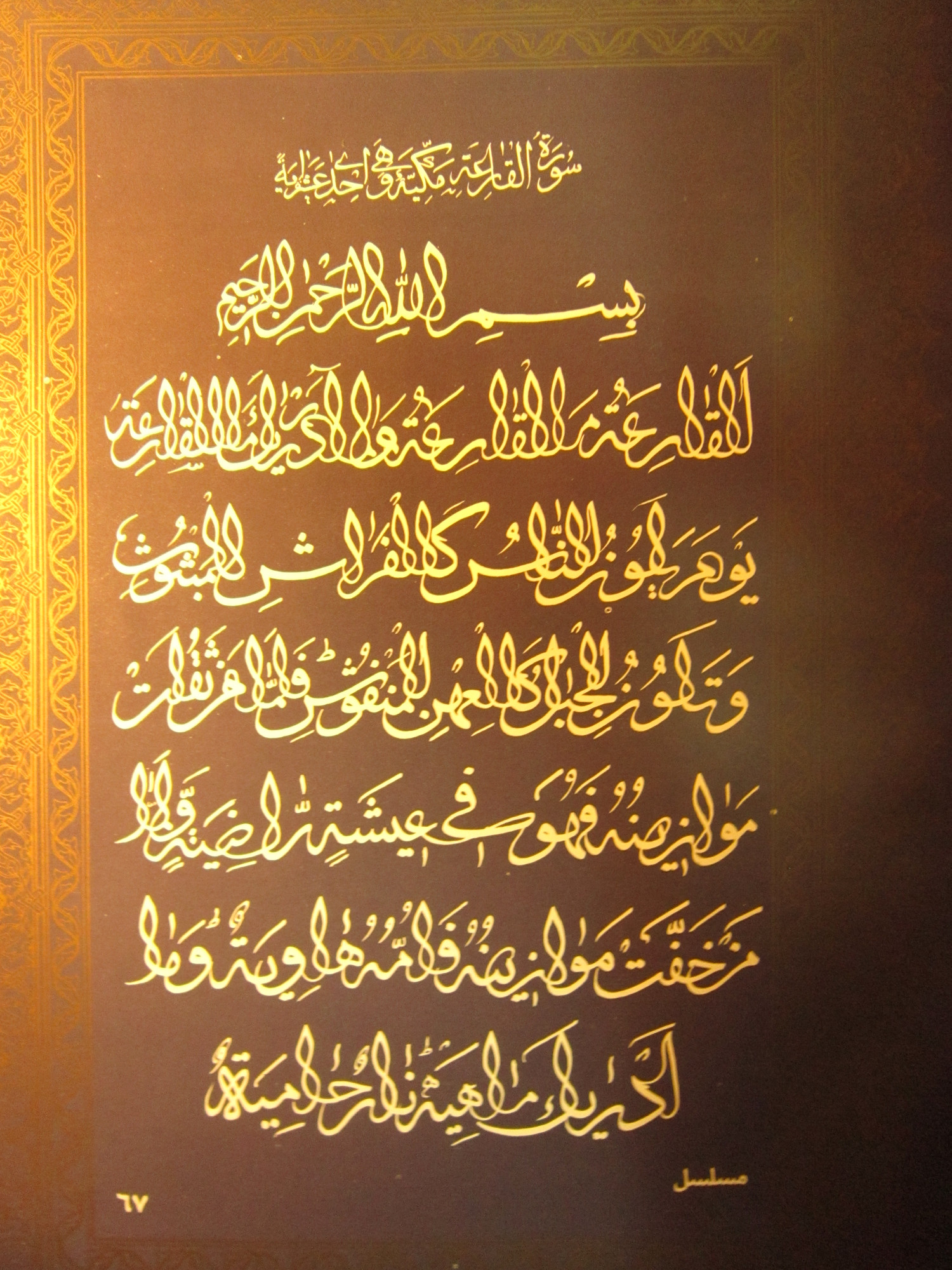 مثال عن الخط الثلث المسلسل